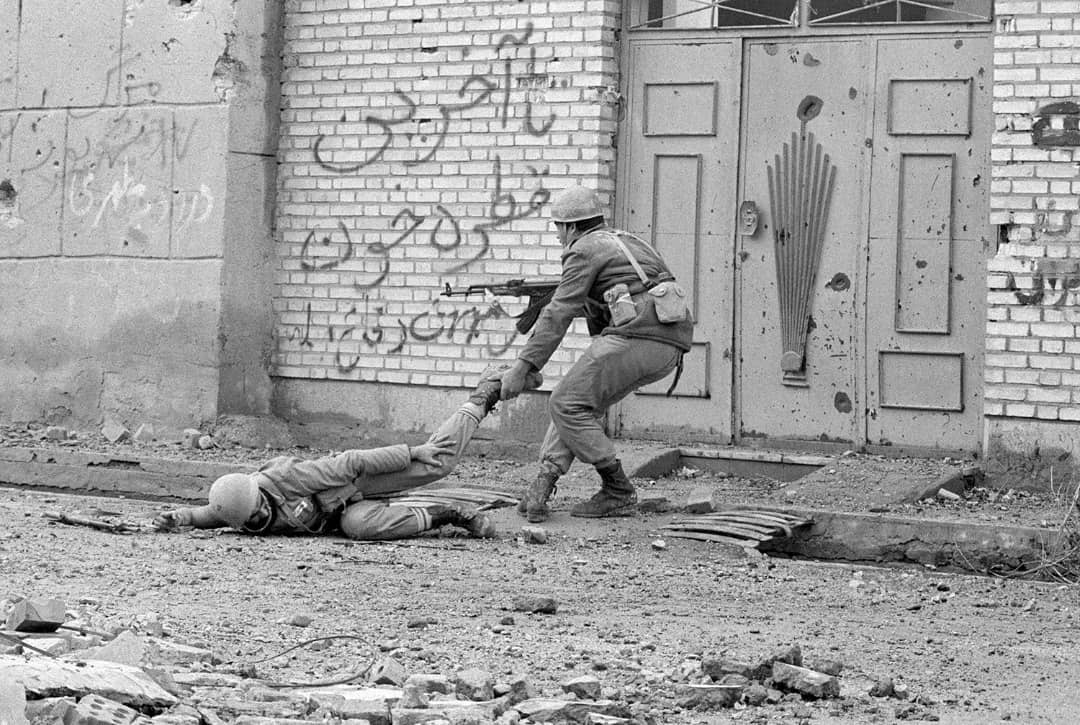 Iranian soldiers fighting in the Battle of Khorramshahr.